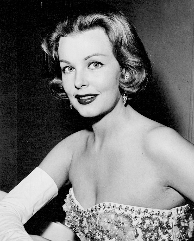 Photo of Arlene Dahl from the television program Max Factor Presents Opening Night. This was an anthology-type television series and Dahl was the hostess of it.